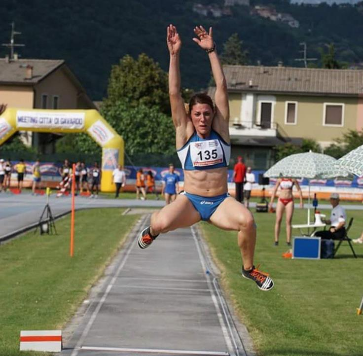 Italian athlete Tania Vicenzino during a national race in Gavardo in 2015